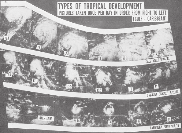 Evolution of the clouds pattern associated with a tropical systems used in the Dvorak technique.